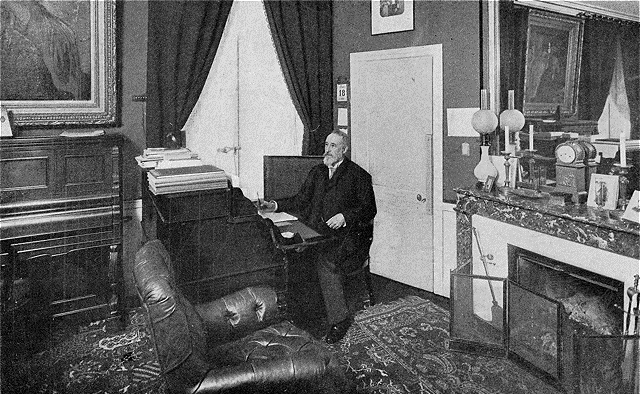 Composer Theodore Dubois in his cabinet. Photo published in the French magazine L'Illustration, 18 March 1905.